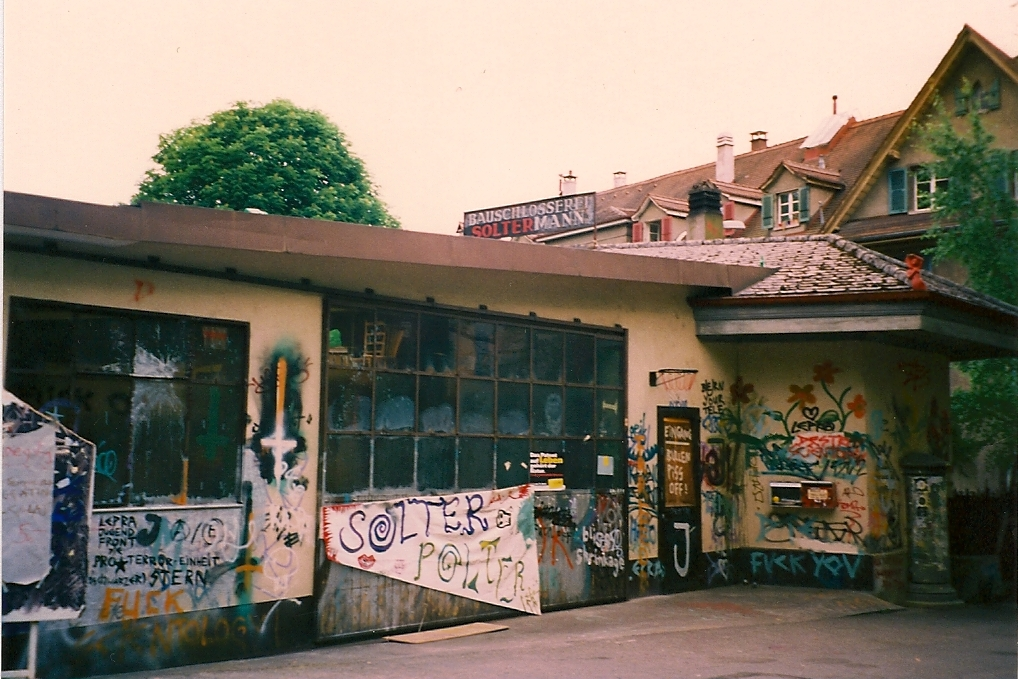 SolterPolter - A squatted building in Berne, Switzerland (1997-2002)